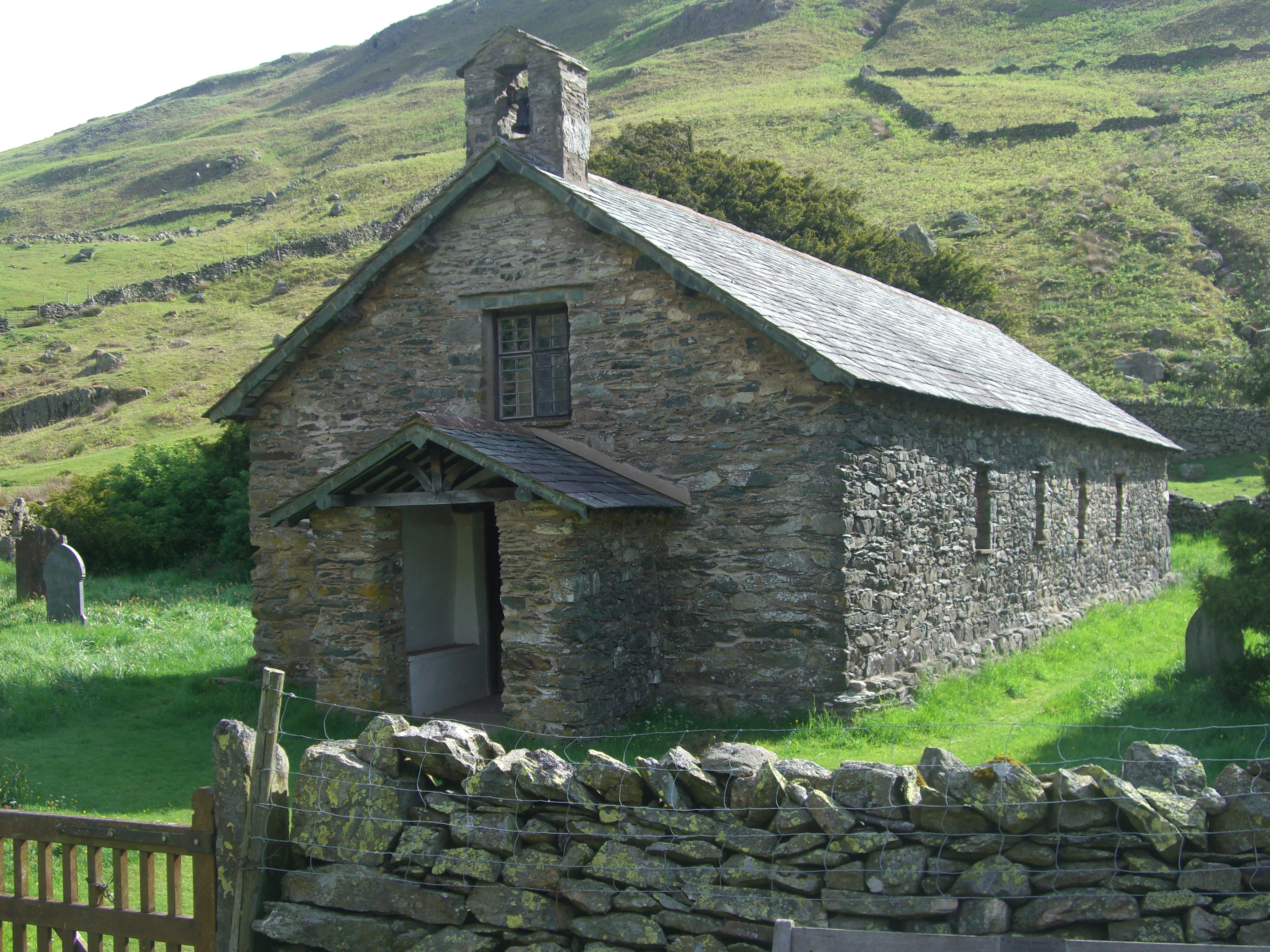 St Martin's parish church, Martindale, Cumbria, seen from the southwest